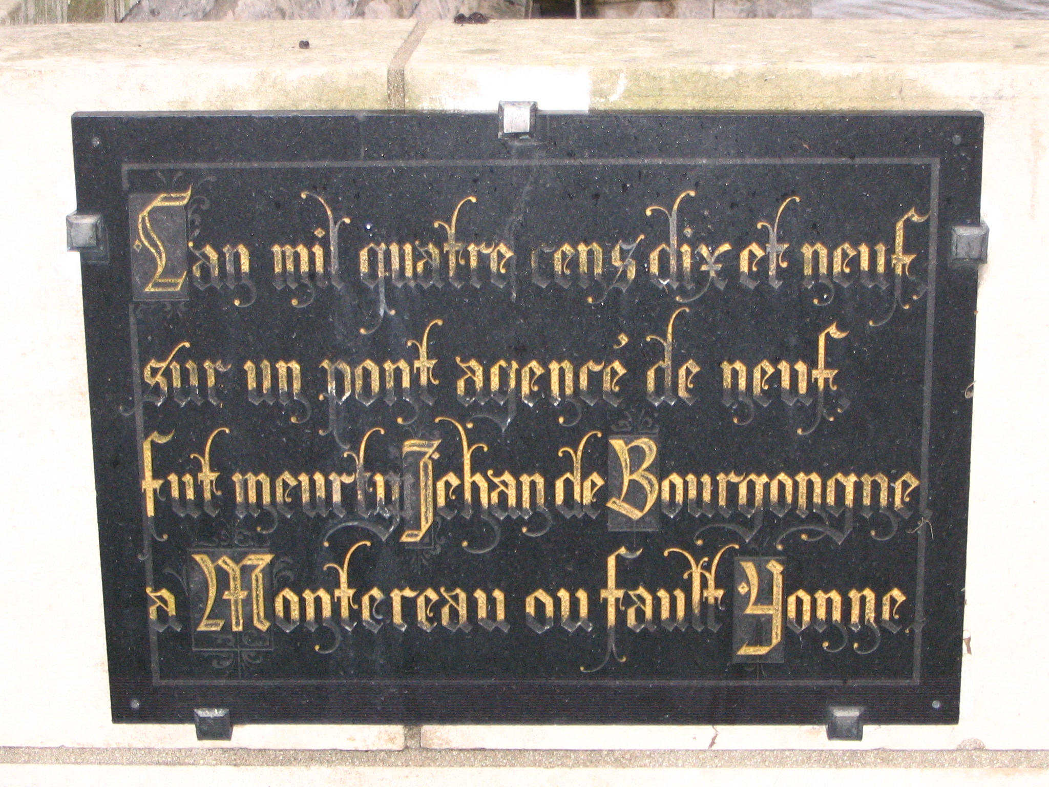 Plaque commemorating assassination of John the Fearless, in Montereau-Fault-Yonne, Seine-et-Marne, France. Text in Middle